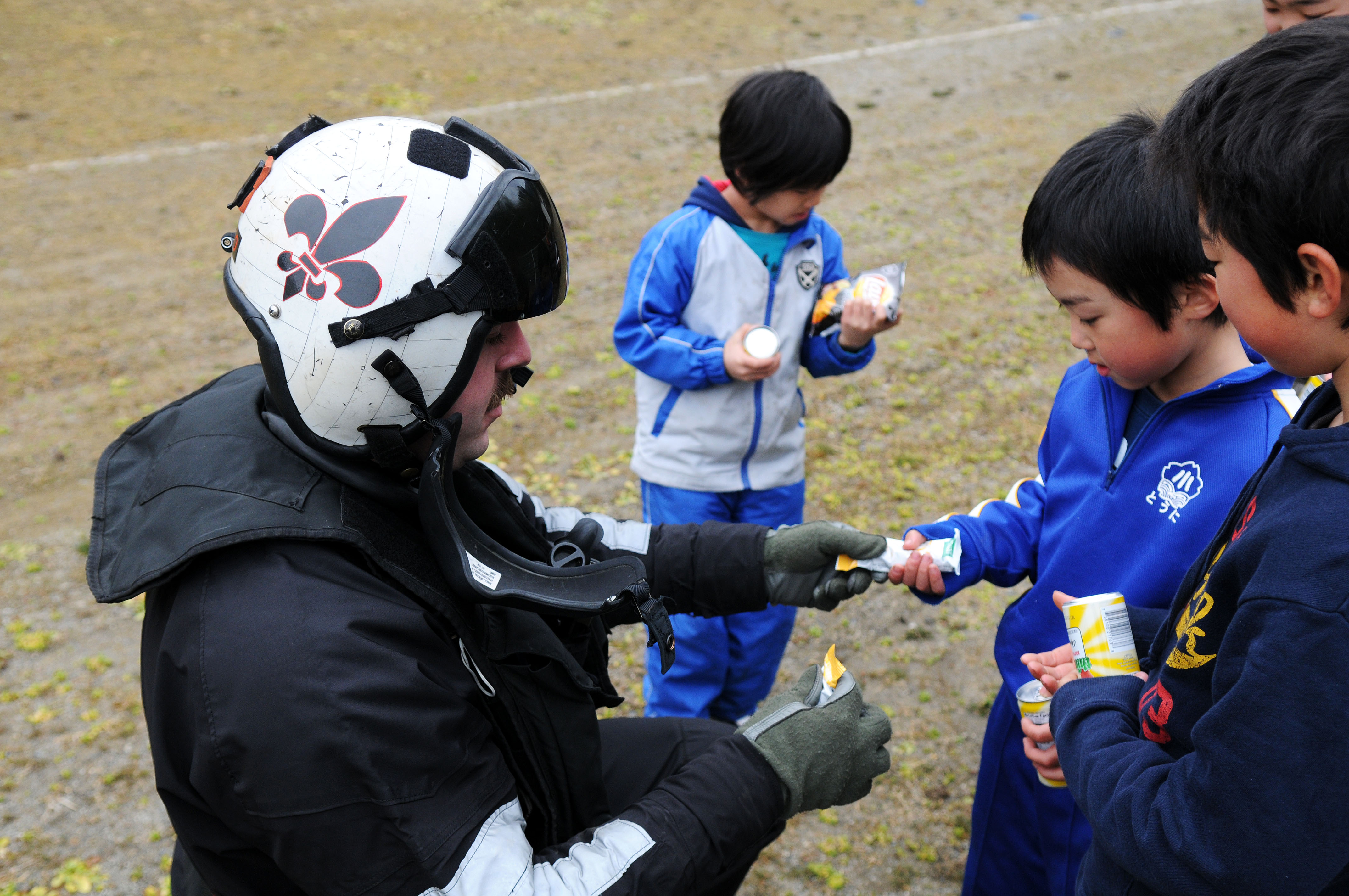 ŌSHIMA, Japan (March 21, 2011) Naval Air Crewman 2nd Class Chris Tautkus, assigned to the Black Knights of Helicopter Anti-Submarine Squadron (HS) 4 embarked aboard the aircraft carrier USS Ronald Reagan (CVN 76), hands treats to Japanese children during a humanitarian assistance mission. Ronald Reagan is operating off the coast of Japan providing humanitarian assistance as directed in support of Operation Tomodachi. (U.S. Navy photo by Mass Communication Specialist 3rd Class Kevin B. Gray/Released)